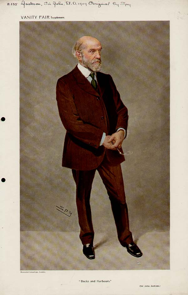 Men of the Day No.1191: Caricature of Sir J Jackson. Caption reads: "Docks and Harbours"